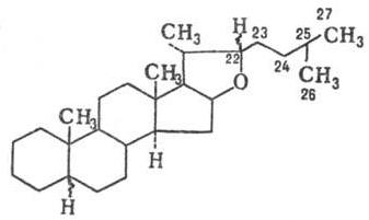 Furostan